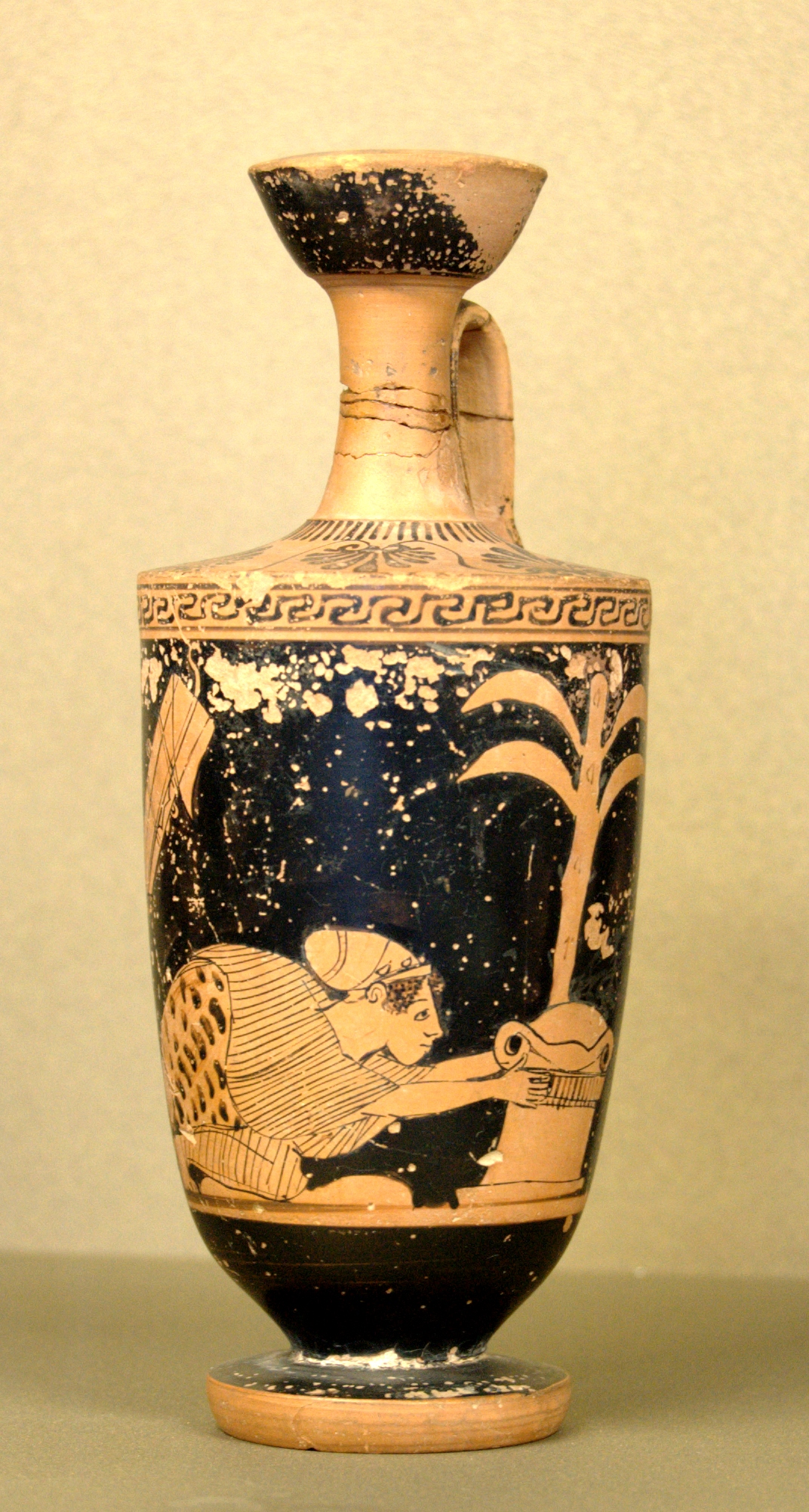 Amazon in front of an altar. Attic red-figure lekythos, 475–450 BC. From Greece.